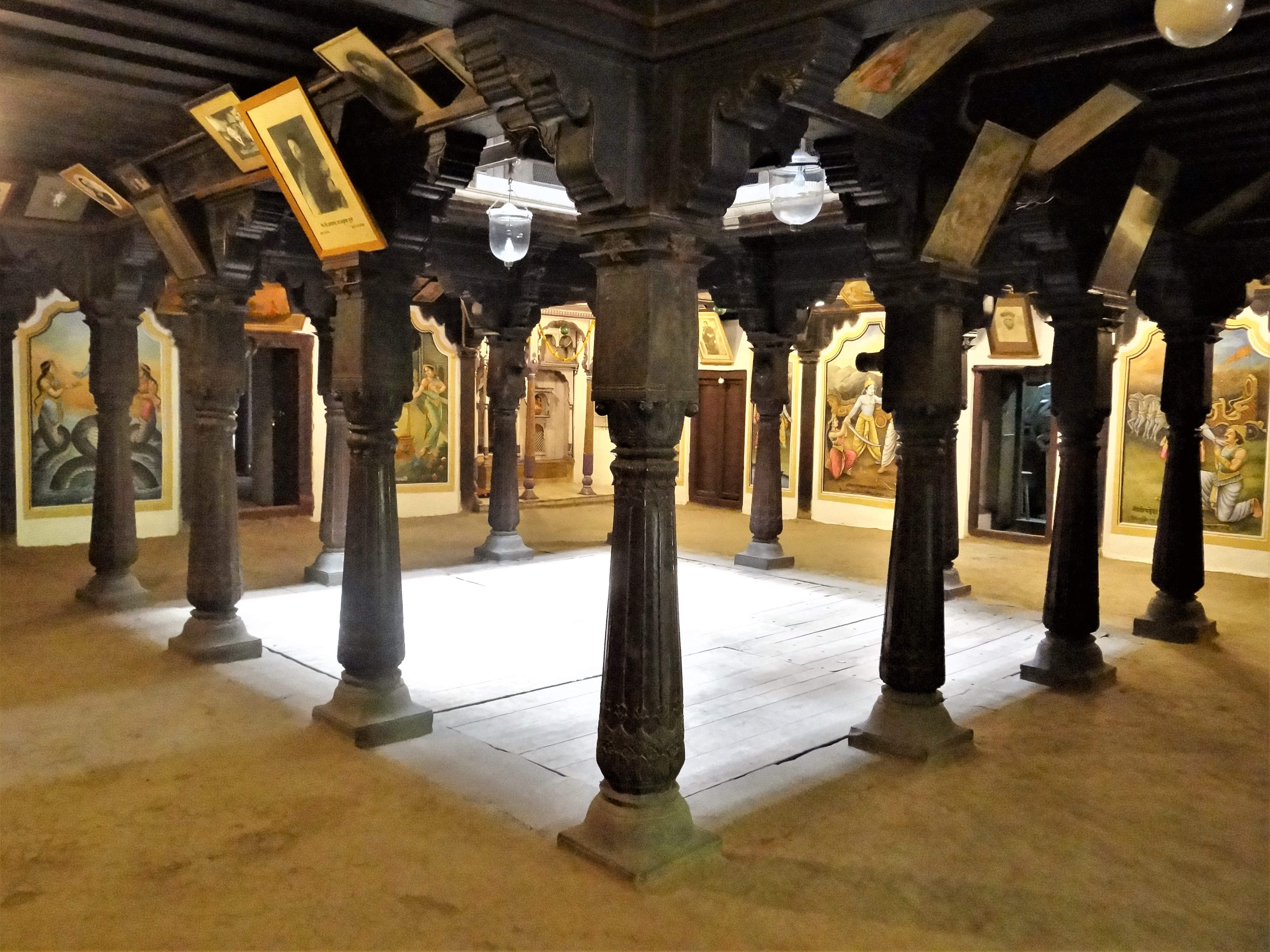 First courtyard of the Chitnavis wada, a listed heritage building in Nagpur.